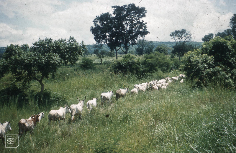 Cattle file through still green savanna on way to Lagos, Bosso by Dr Mary Gillham. See all her pictures on Flickr: or her personal archive